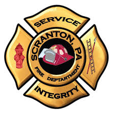 This file is the logo for the Scranton Fire Department